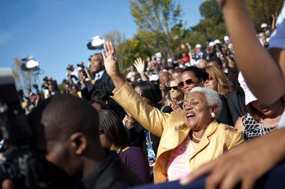 Naomi King (Dr. King's sister-in-law, and widow of AD King) stands as President Barack Obama delivers remarks during the dedication ceremony of the Martin Luther King Jr. National Memorial, in Washington, D.C., Sunday, Oct. 16, 2011. (Official White House Photo by David Lienemann)